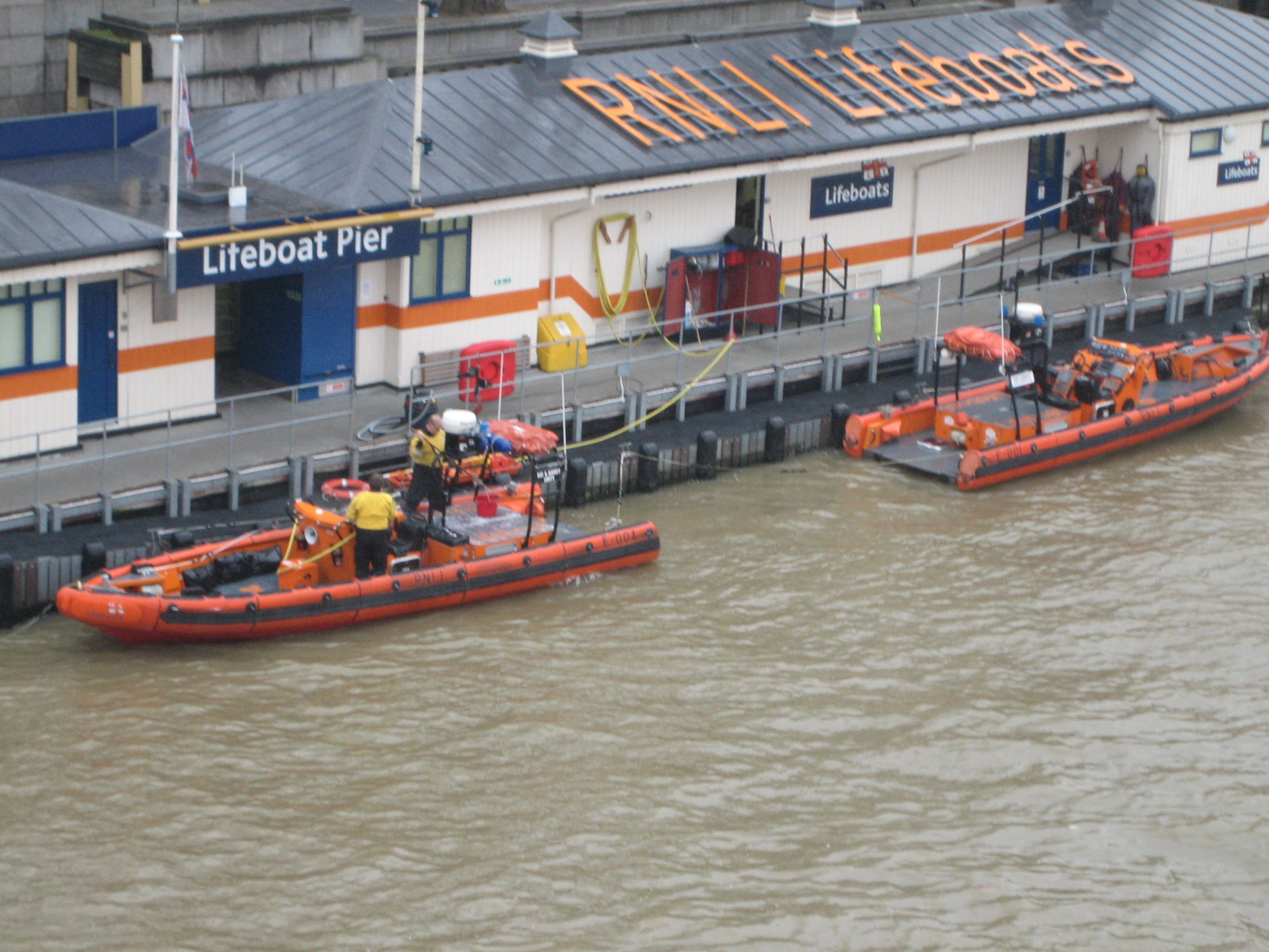 RNLI RBB on Thames at London